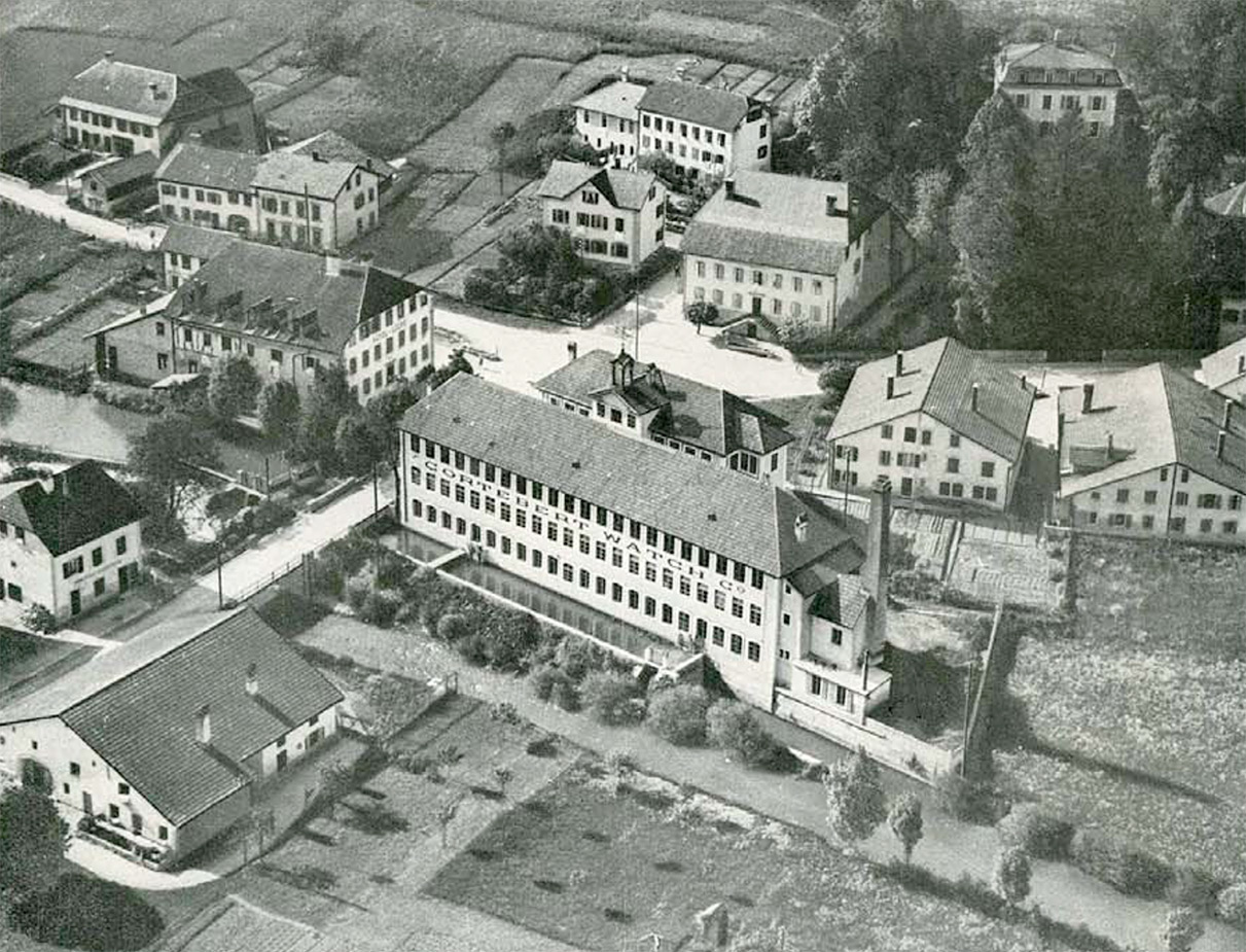 Cortebert Watch factory around 1935